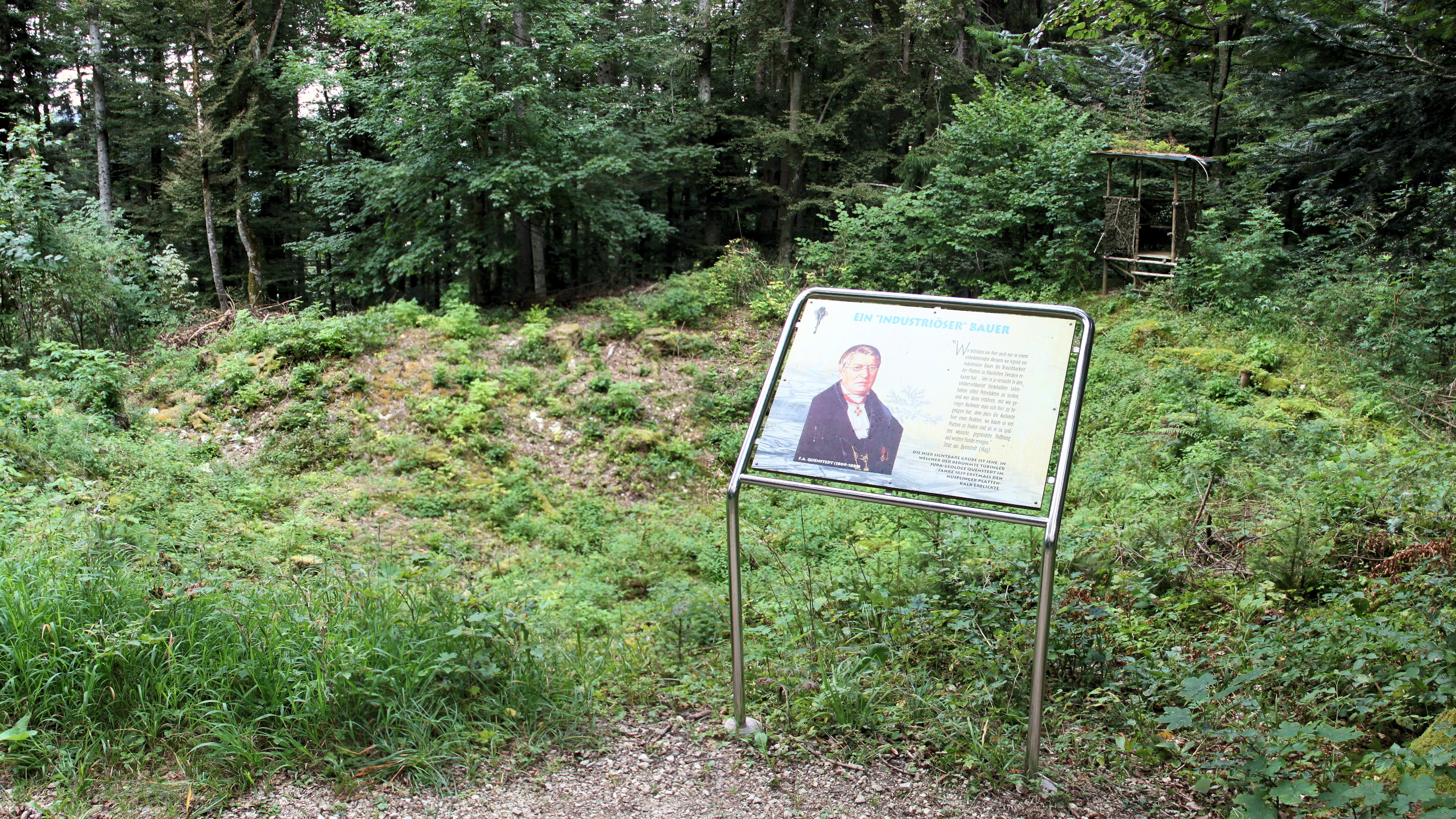 Nusplingen: Pit fossil site in which Friedrich August Quenstedt discovered the Nusplingen limestone (Nusplinger Plattenkalk) in 1839.